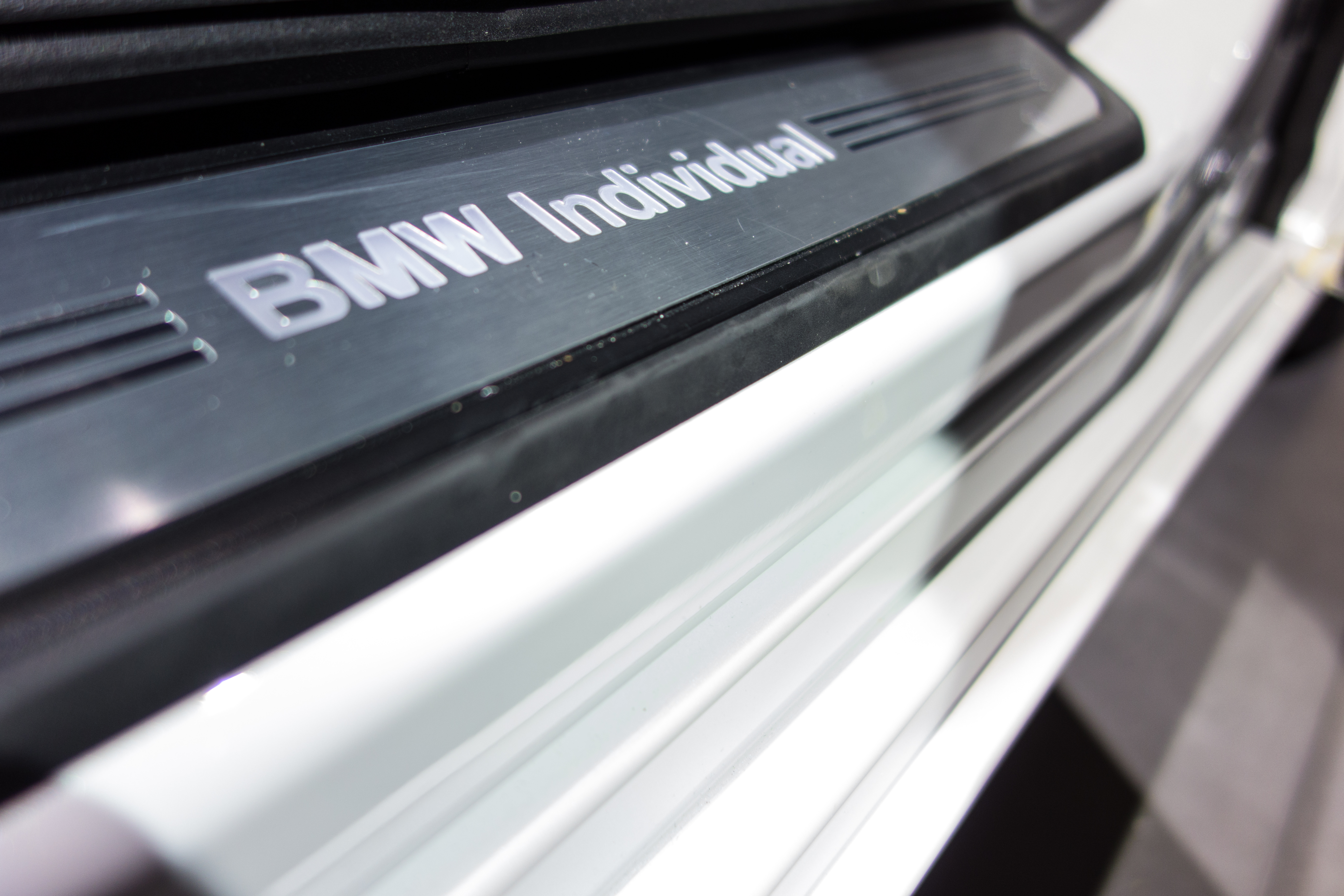 Mondial De L'automobile Paris 2012 | Paris Motor Show 2012